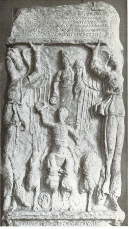 Alan Cameron, Porphyrius the Charioteer